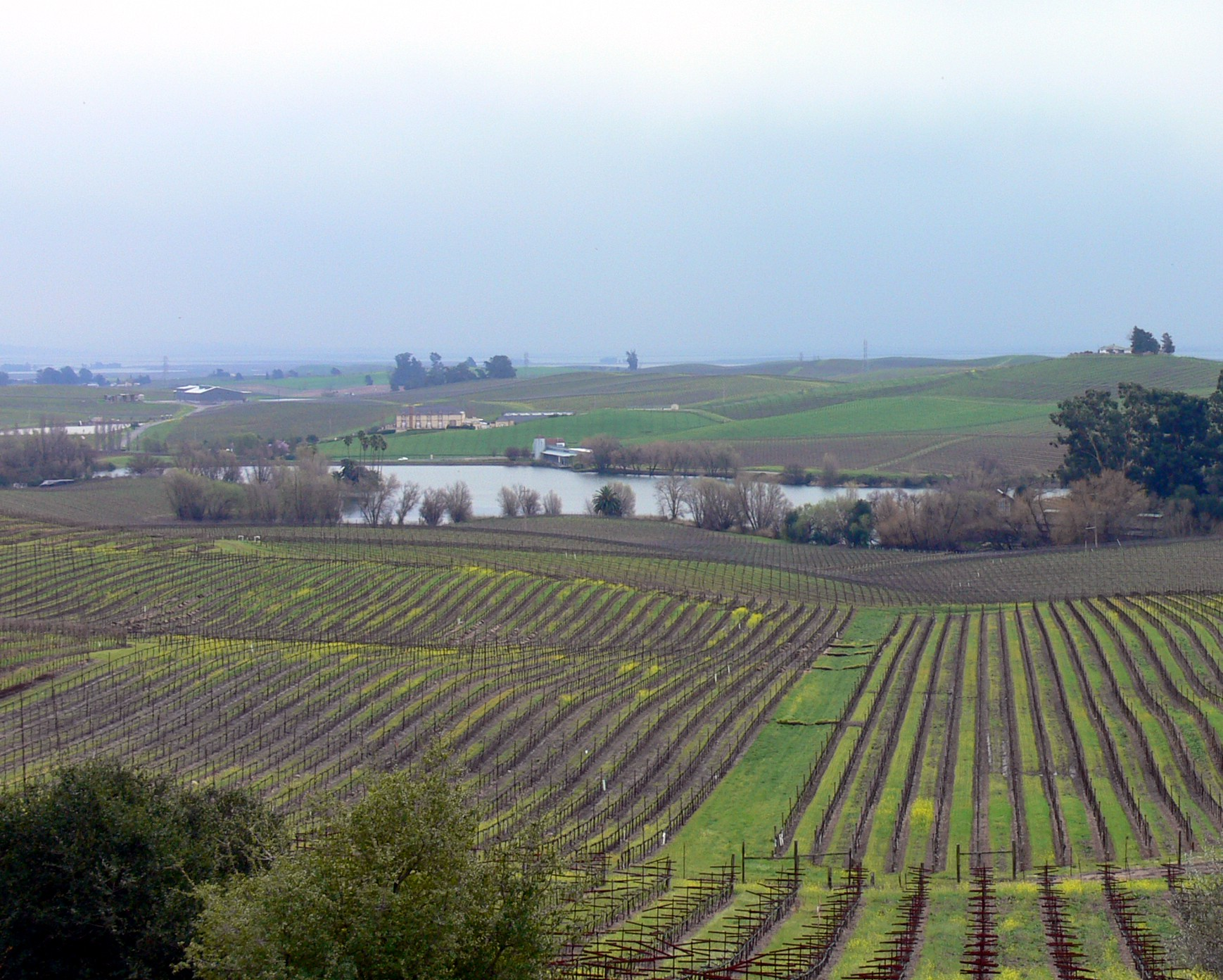 View of the California wine region of Carneros in Sonoma. Domain Carneros in the distance, just beyond the pond. Mustard just beginning to bloom between the vines.